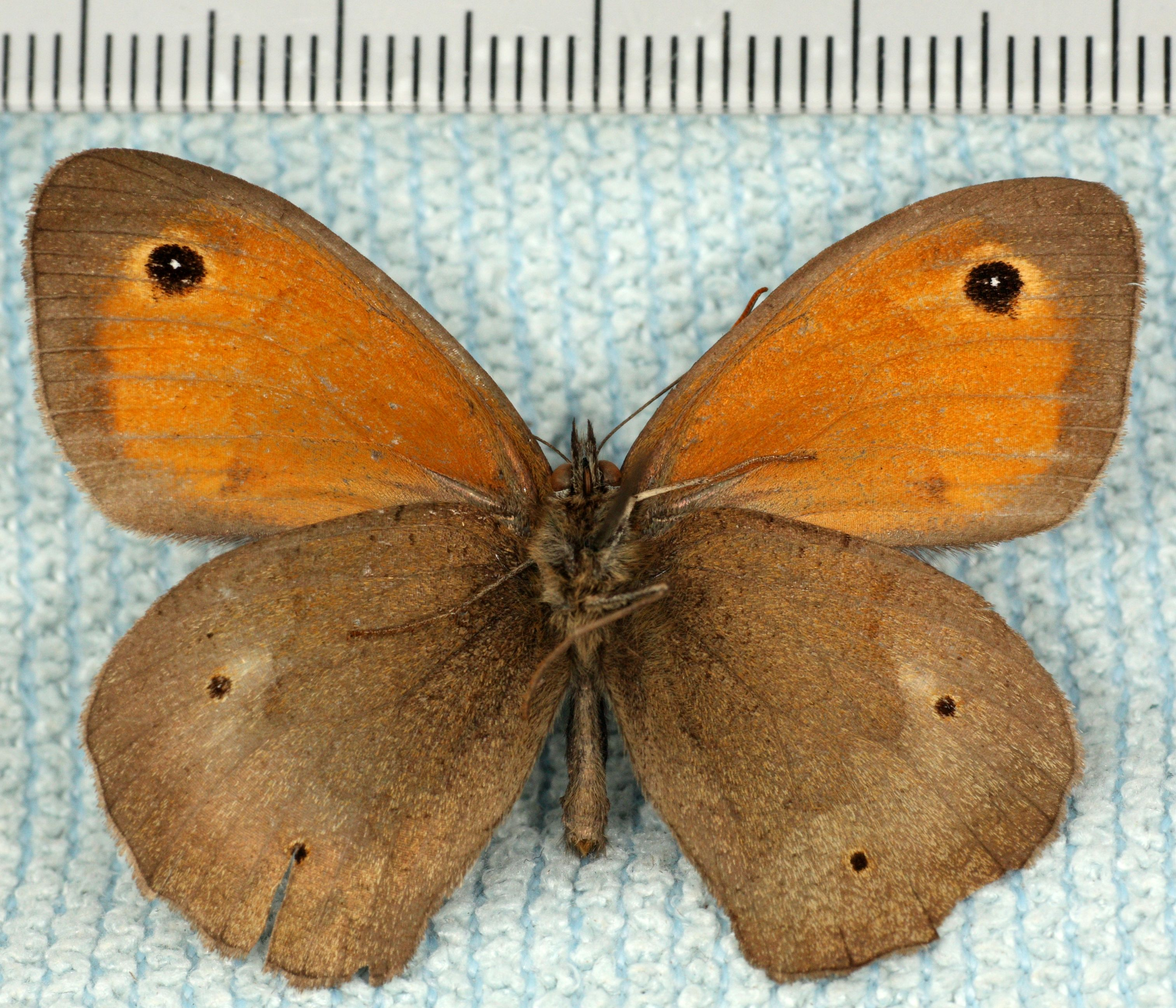 Male Meadow Brown Maniola jurtina